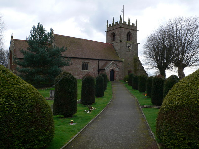 St Andrew's parish church, Stanton upon Hine Heath, Shropshire, England, seen from the northeast